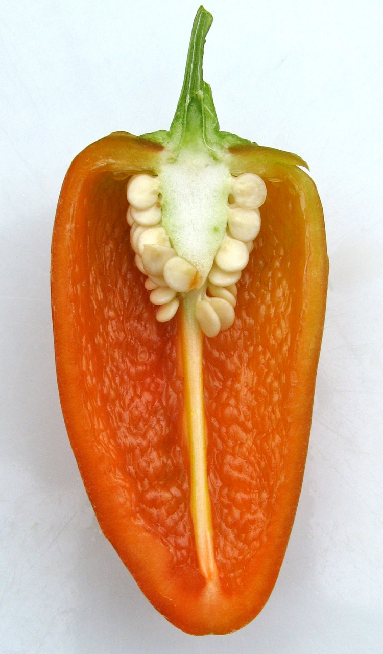 'Fresno' pepper. Dimensions 6 cm × 3 cm